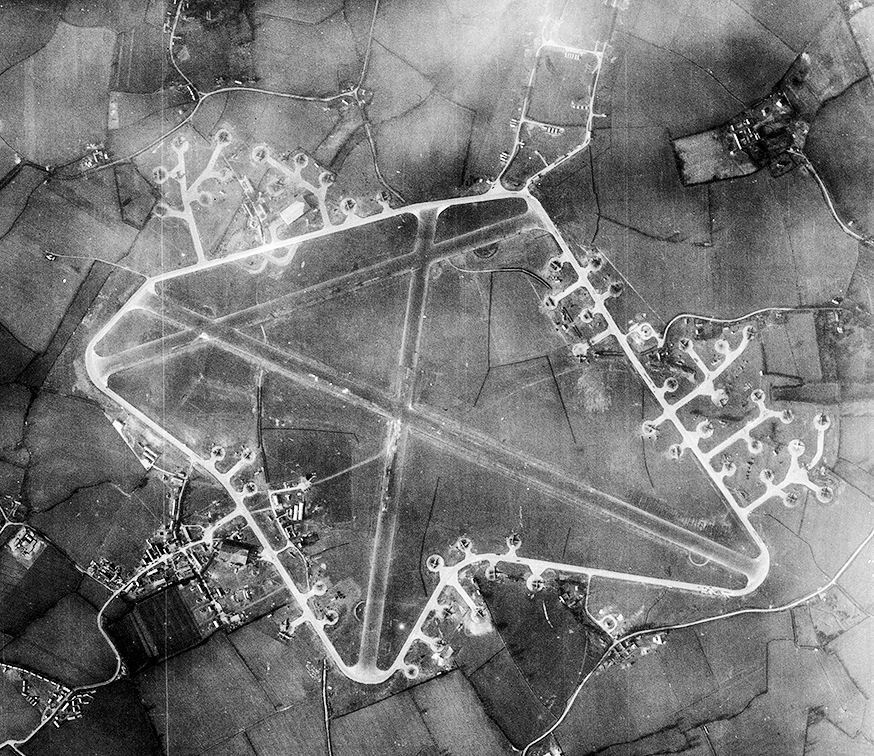 Aerial photograph of RAF Ridgewell, the bomb dump is to the right of the airfield, 29 February 1944. Many B-17 Flying Fortresses of the 381st Bombardment Group are visible in the photo, parked on hardstands around the perimeter track. Photograph taken by 7th Photographic Reconnaissance Group, sortie number US/7PH/GP/LOC188. English Heritage (USAAF Photography)